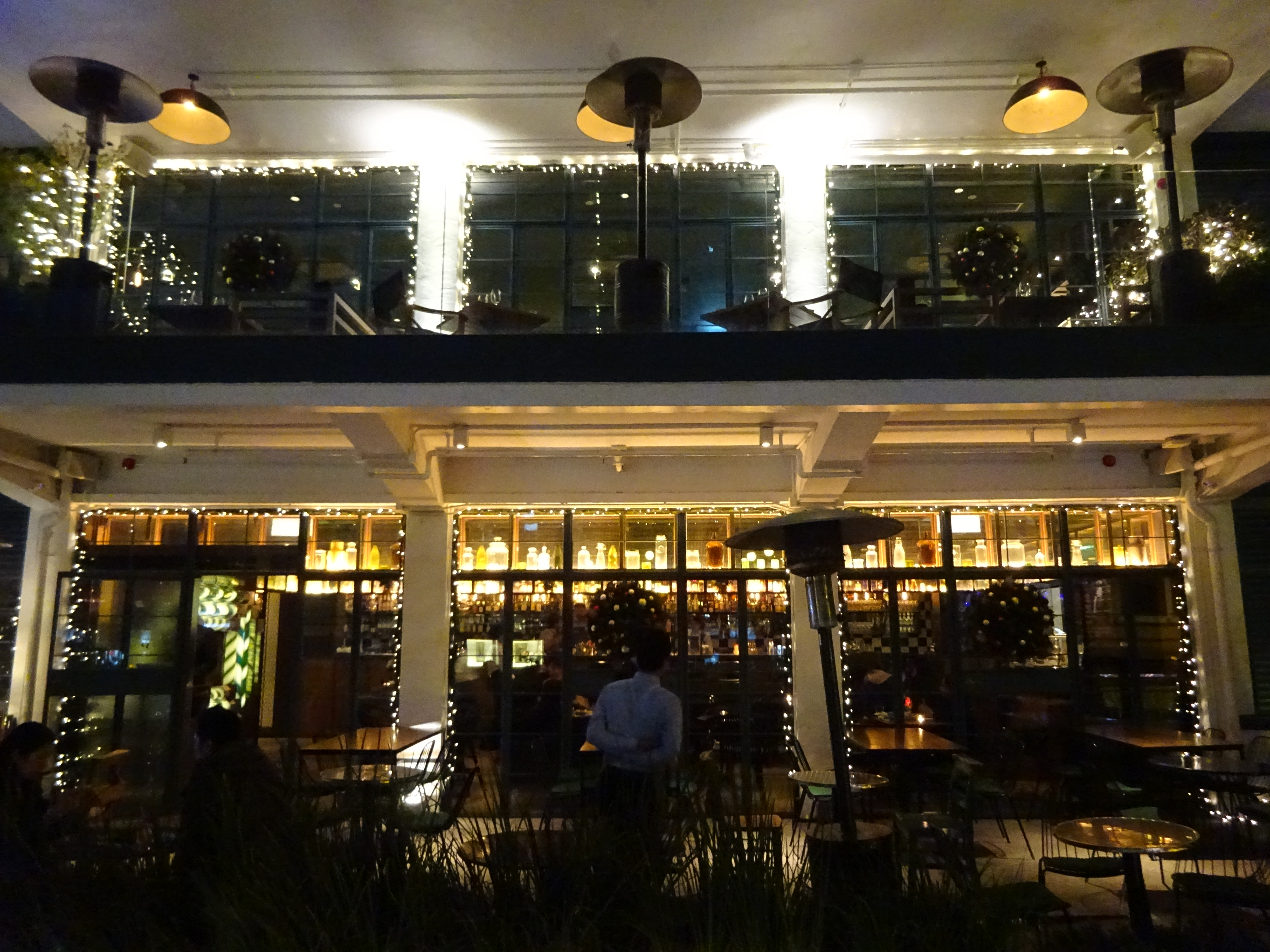 PMQ Mall, Aberdeen Street, Sheung Wan, Hong Kong